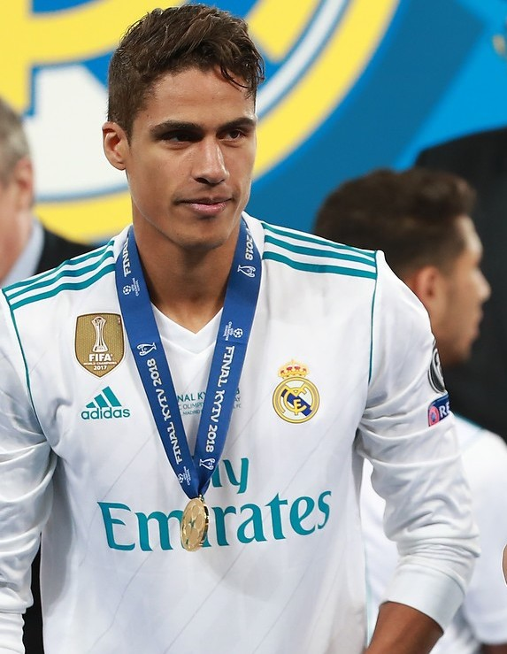 Keylor Navas, Raphaël Varane, Lucas Vázquez